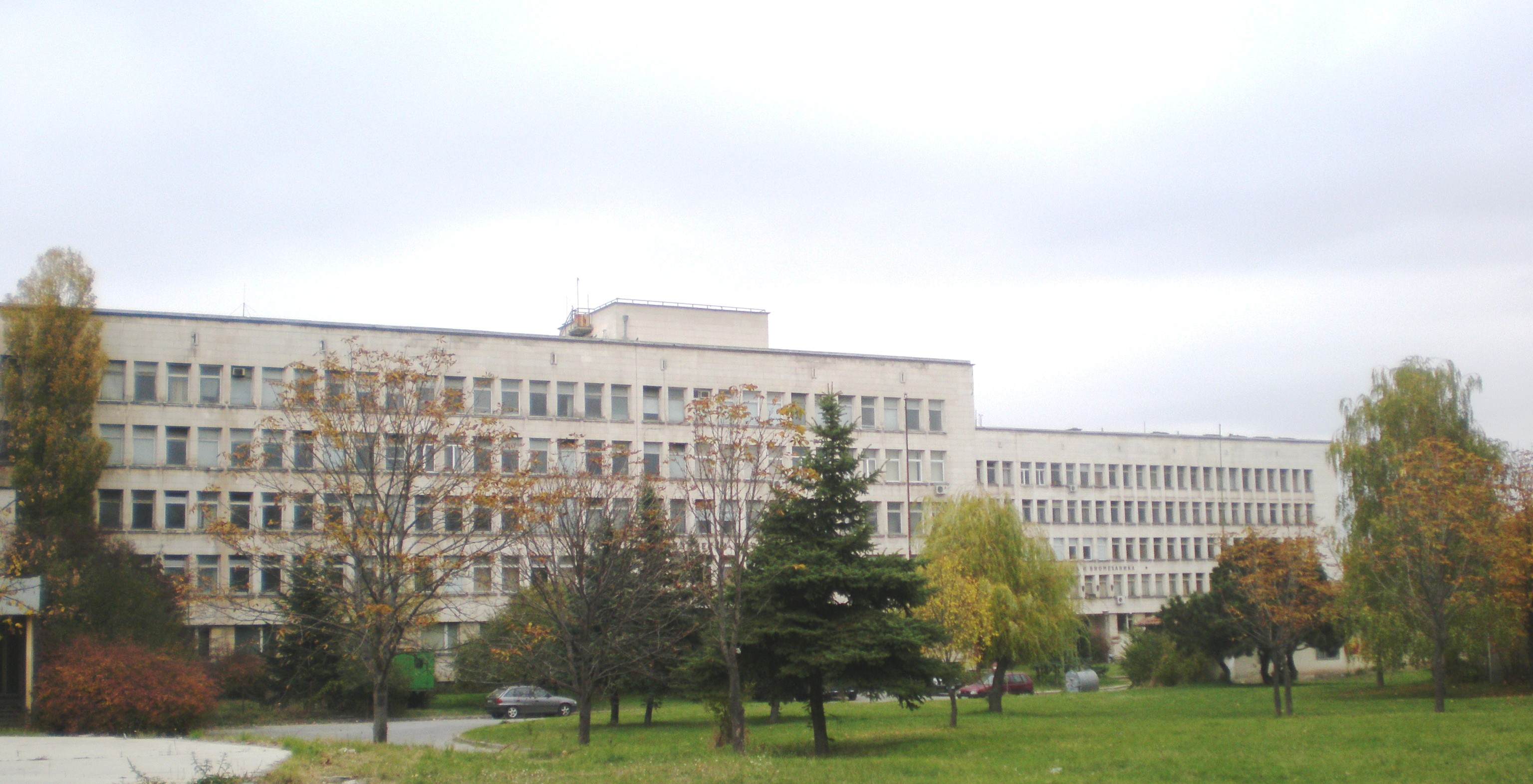 BAS Institute - Sofia, Bulgaria